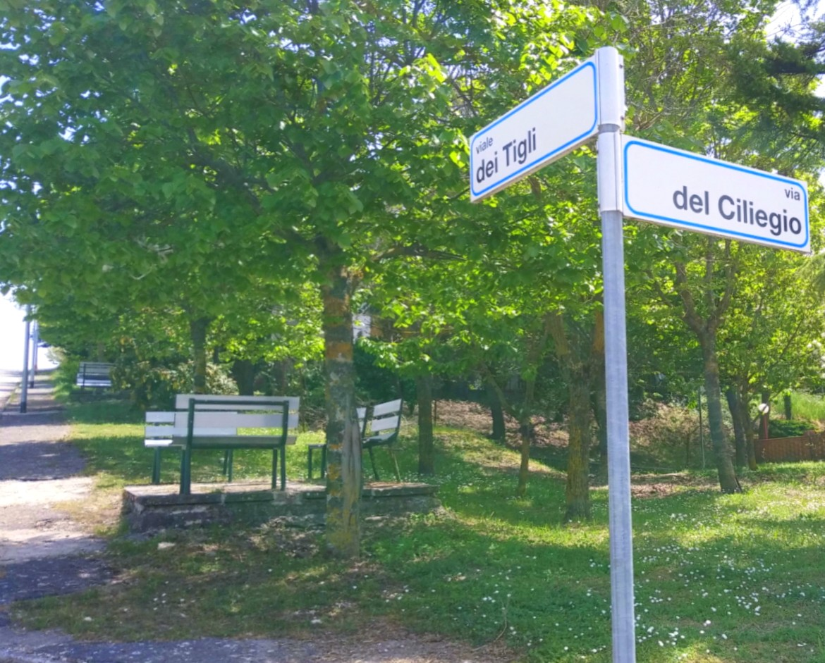 Saint Leonard touristic village in Faeto, Italy